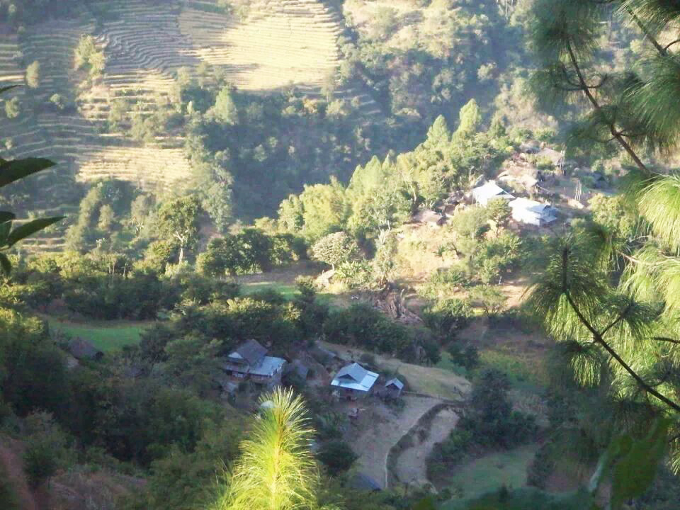 This is photo of Pekuwa village of eastern Nepal.